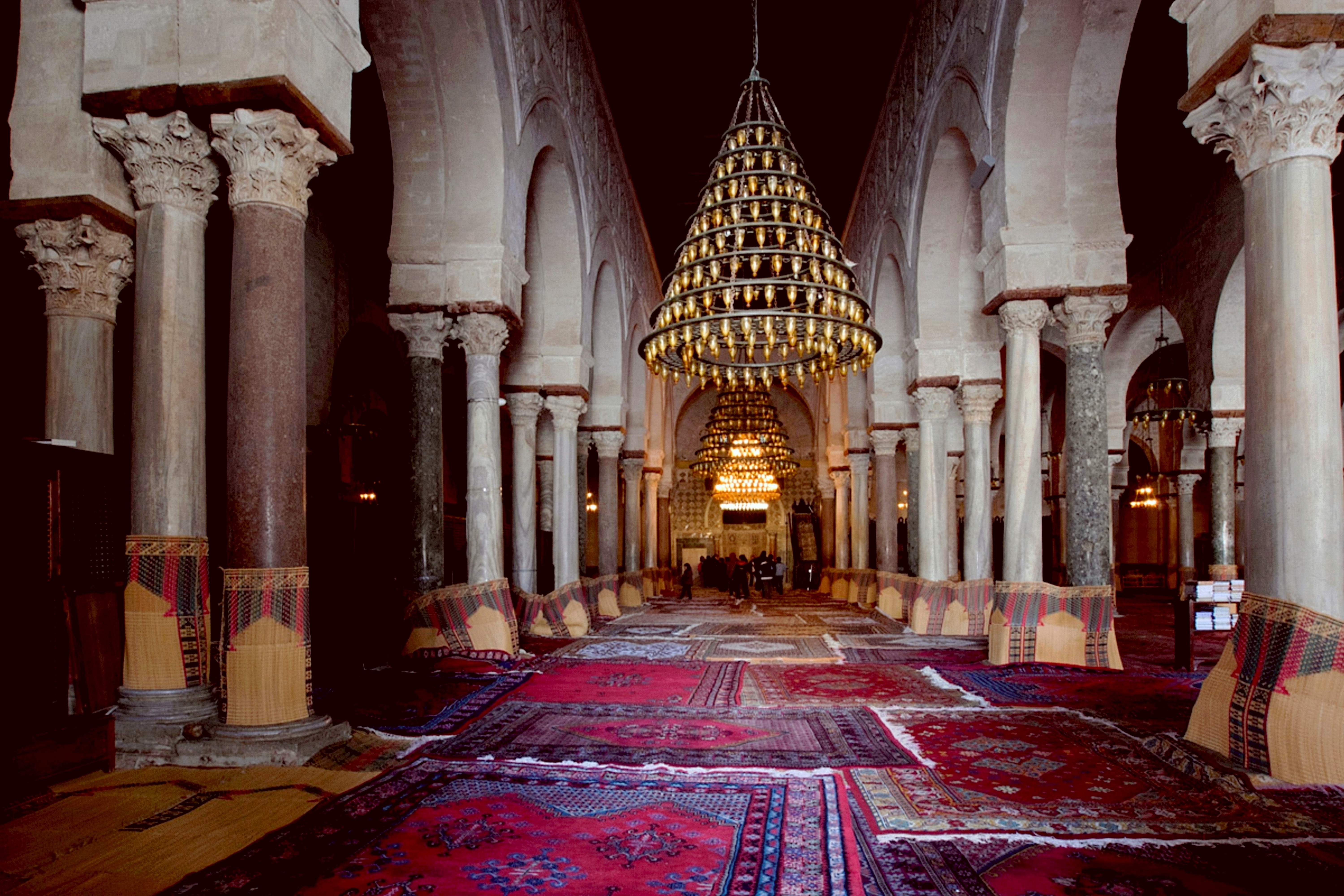 View of the central nave of the prayer hall of the Great Mosque of Kairouan, in Tunisia. The Great Mosque of Kairouan, also called the Mosque of Uqba, is one of the most important mosques in Tunisia, it is spread over a surface area of 9,000 square meters and it is one of the oldest places of worship in the Islamic world.